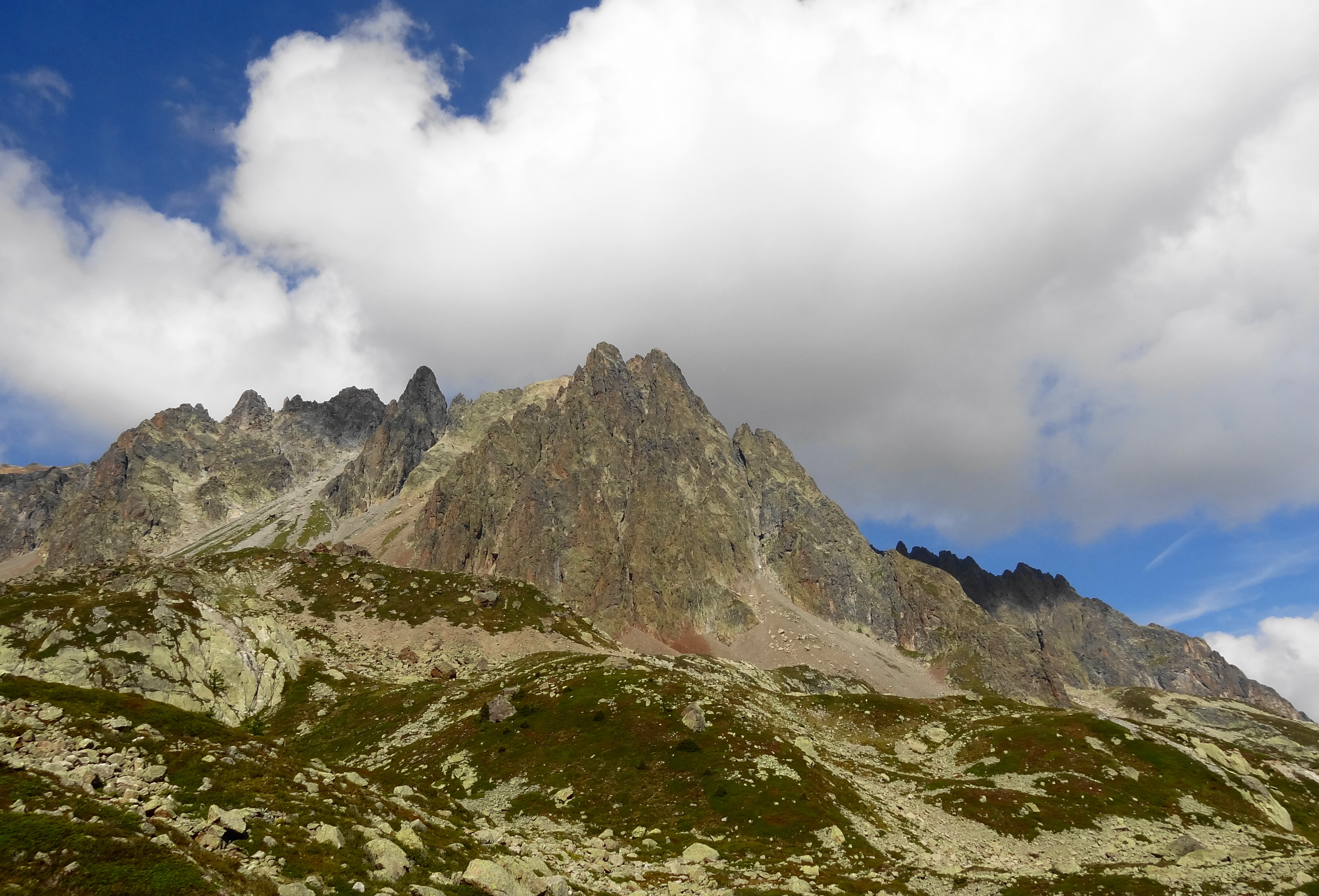 The Aiguilles Rouges Nature Reserve (Haute Savoie), French Alps.